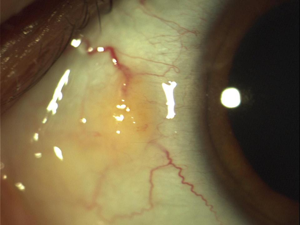 PRE-OPERATIVE PINGUECULA